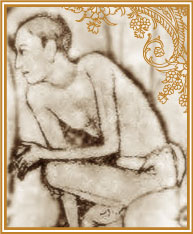 Rupa Goswami